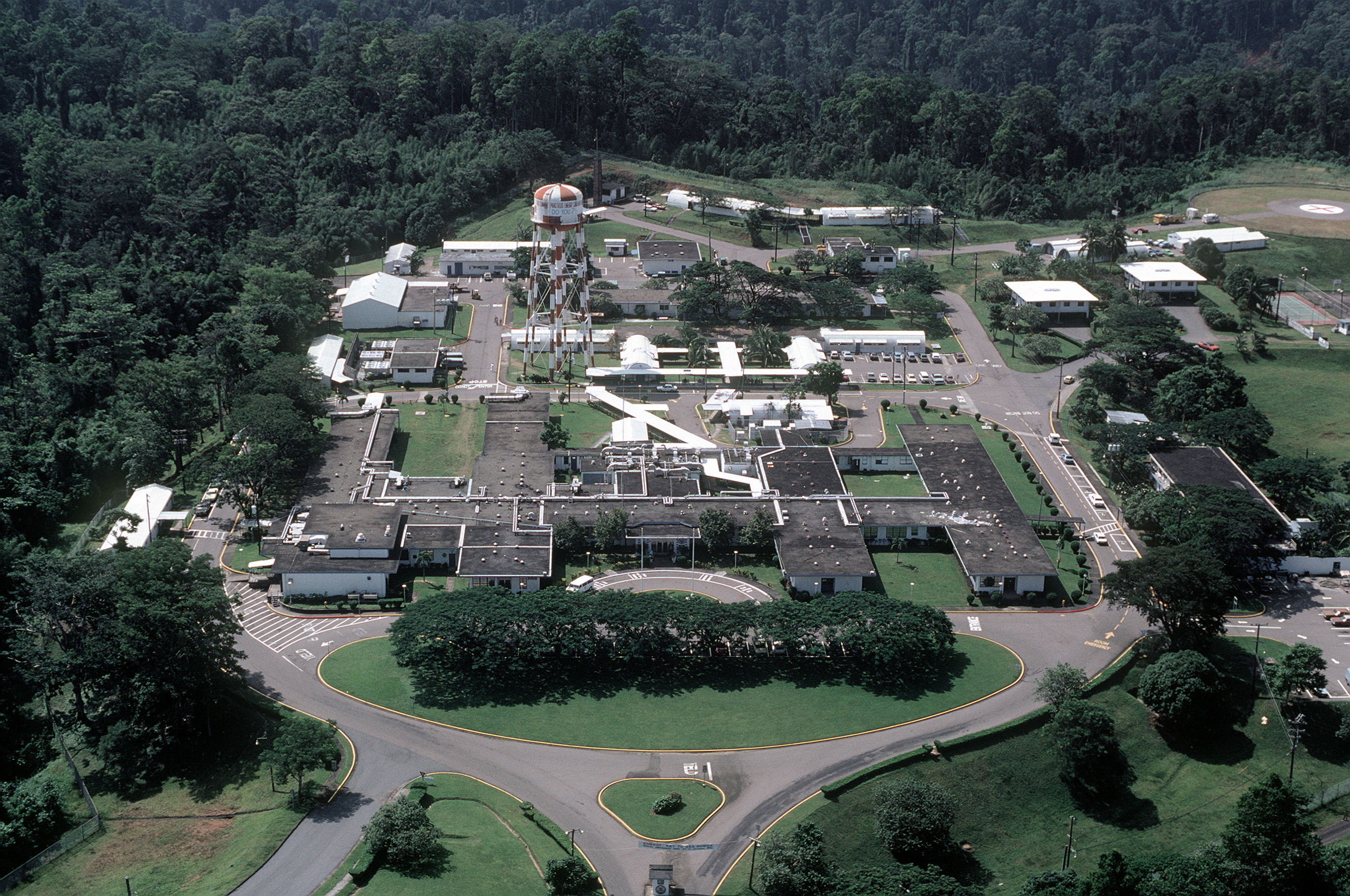 Aerial view of the Naval Regional Medical Center. Location: NAVAL AIR STATION, CUBI POINT, LUZON PHILIPPINES (PHL)